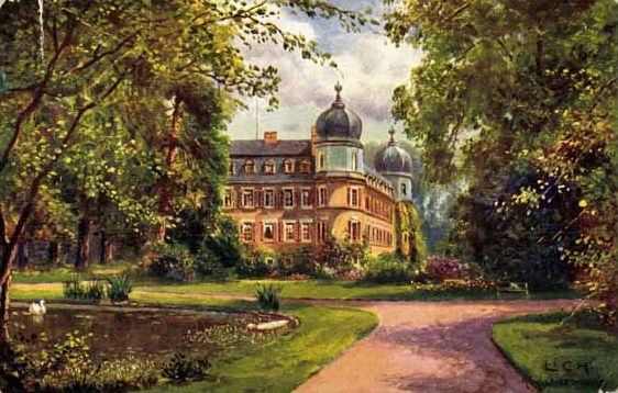 Lich castle and park around 1910.